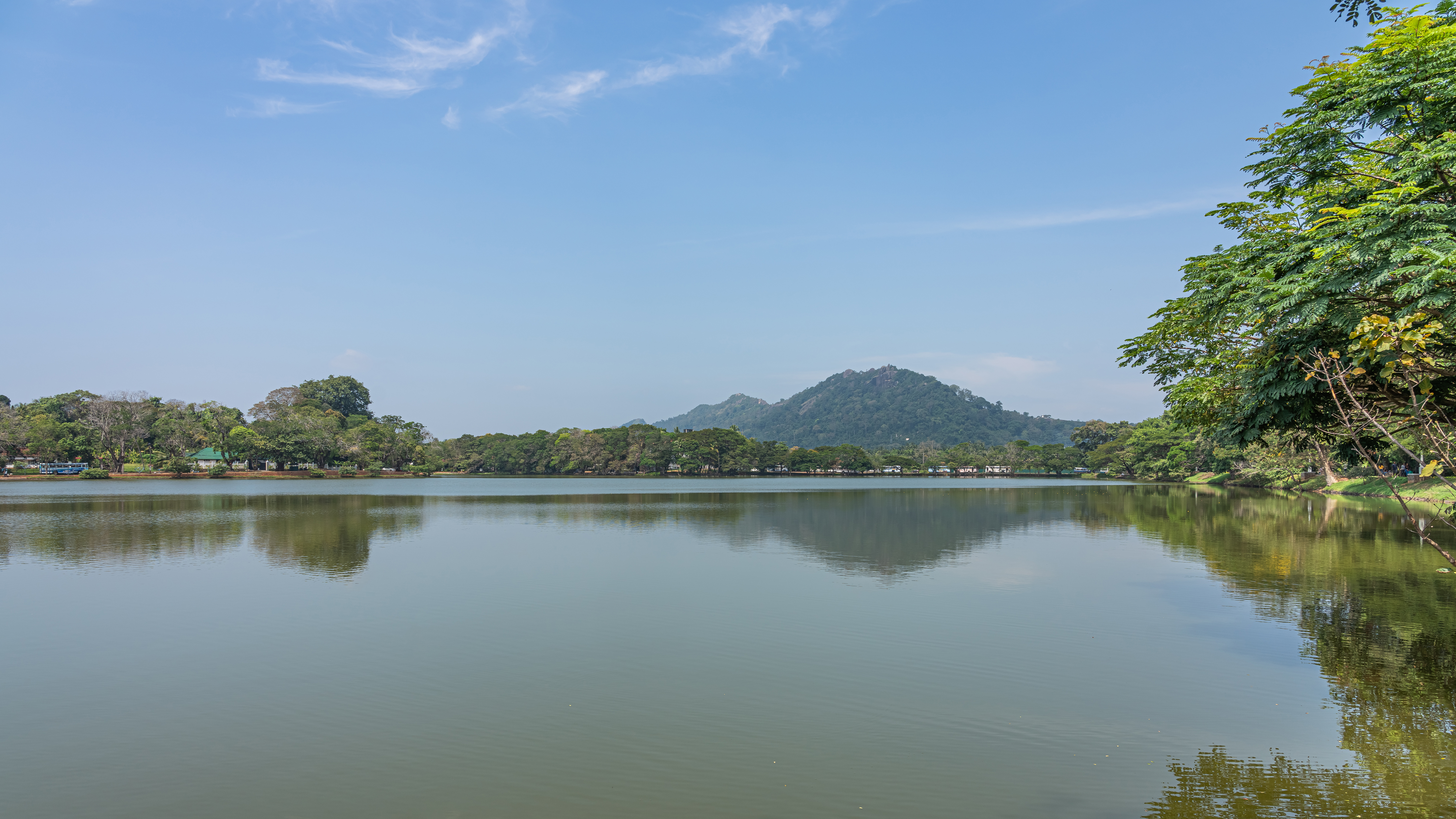 Lake in Kurunegala, Sri Lanka